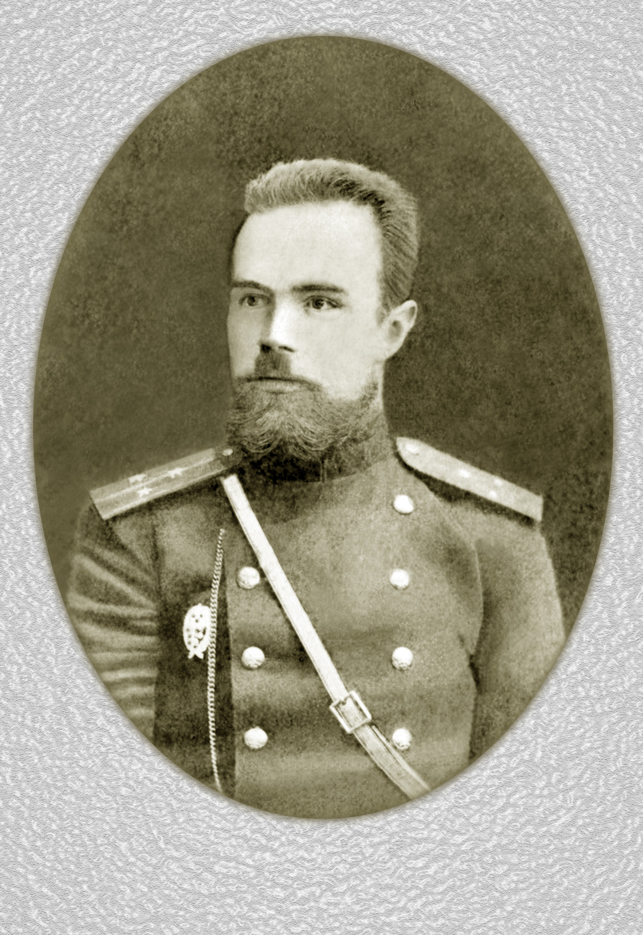 fon Garf, Yevgeny Georgyevich - Poruchik, after graduation from the Imperial Nicholas Military General staff Academy in 1882.